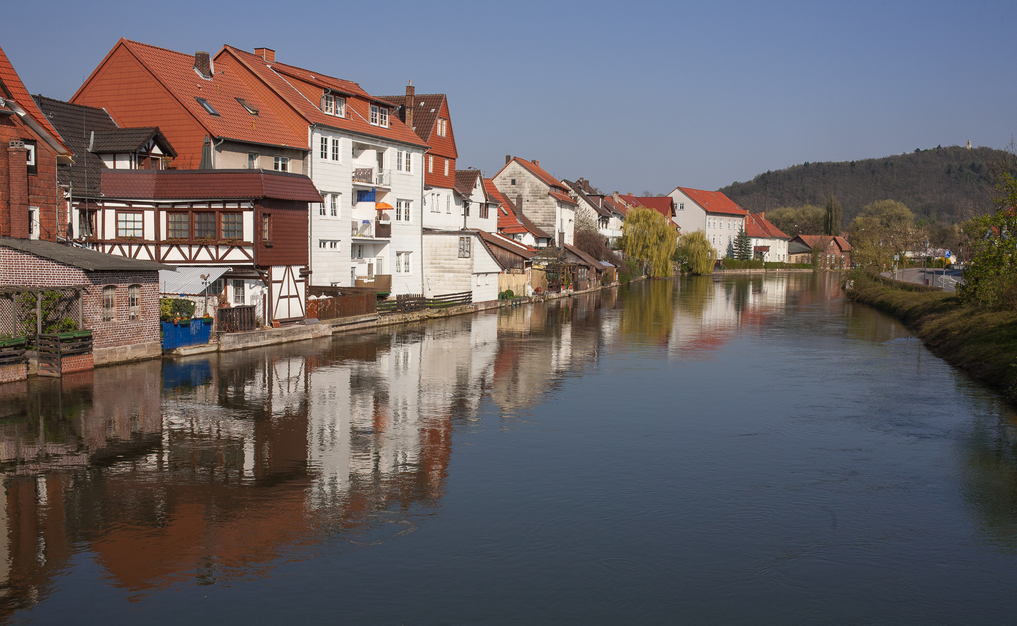 Buildings on the river Werra in Eschwege. View from the bridge over the main branch of the river Werra in Eschwege. In the background the tower "Bismarckturm" on the mountain "Leuchtberg".